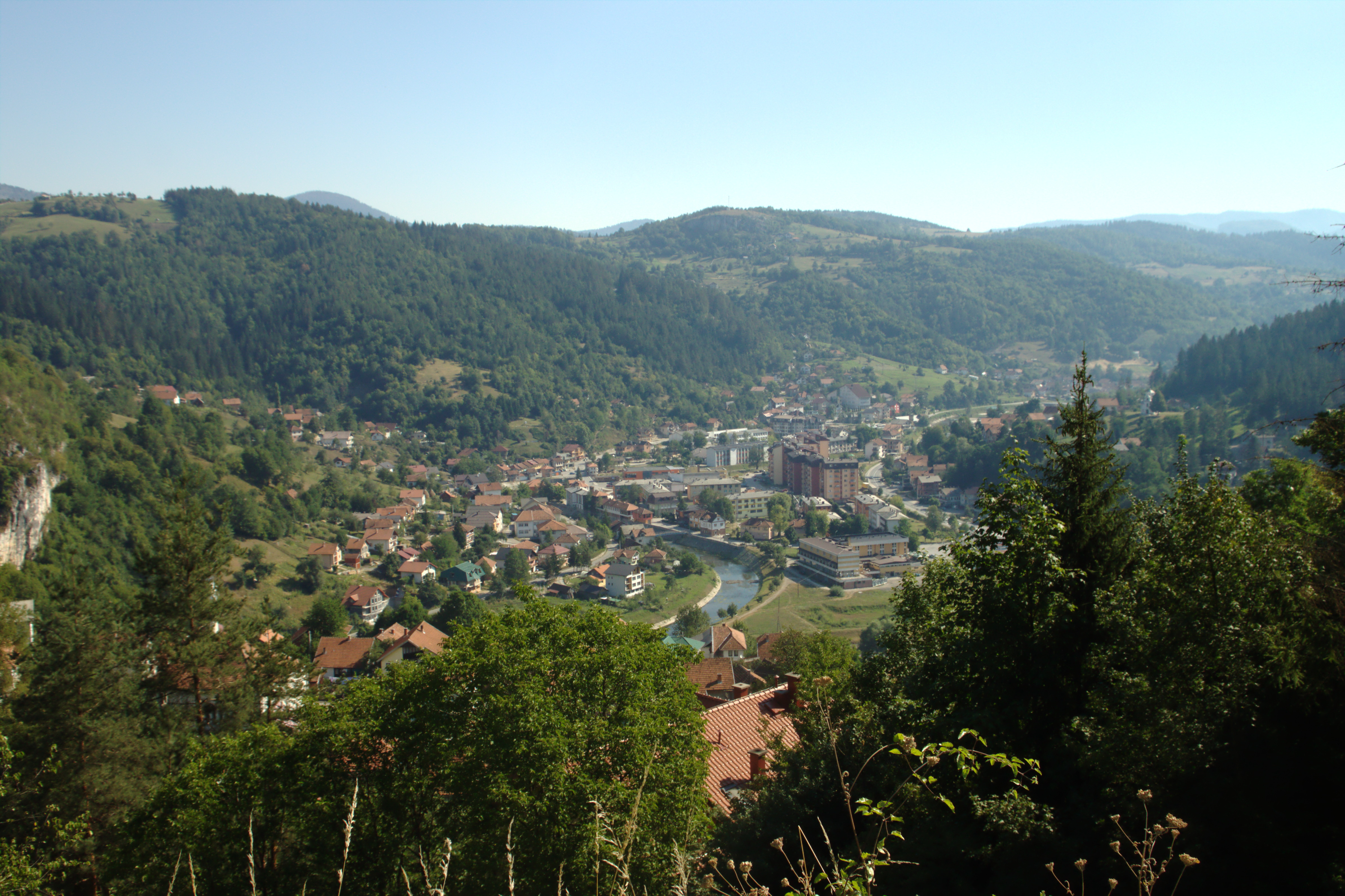 Town of Olovo in the central part of Bosnia and Herzegovina